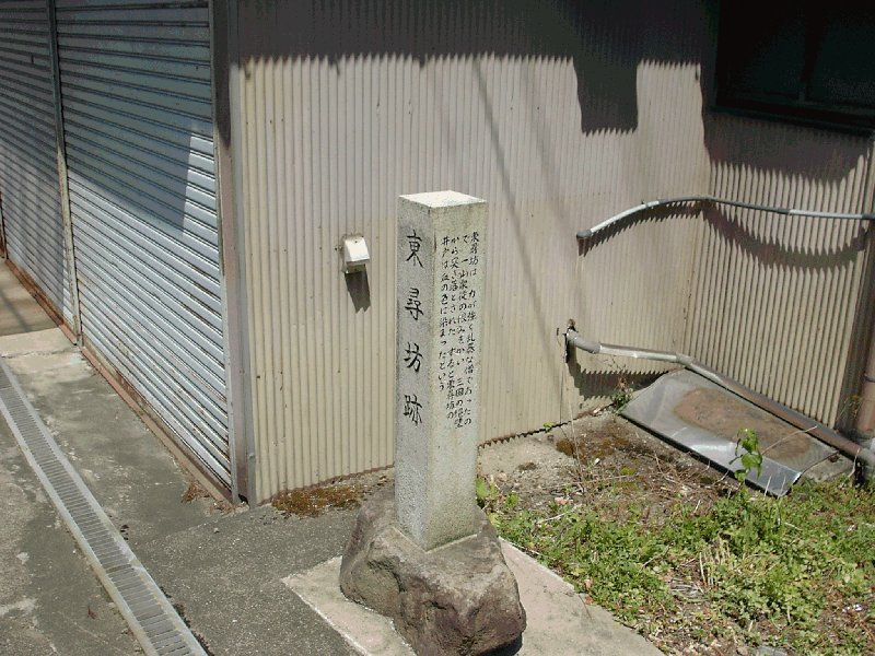 A historical site of Tojinbo (monk-tojinbo)'s house whose name applied to the landform of Tojinbo where he thrown away by fellows for punishment to his wild behavior, in Heisen-ji, Katsuyama, Fukui pref., Japan